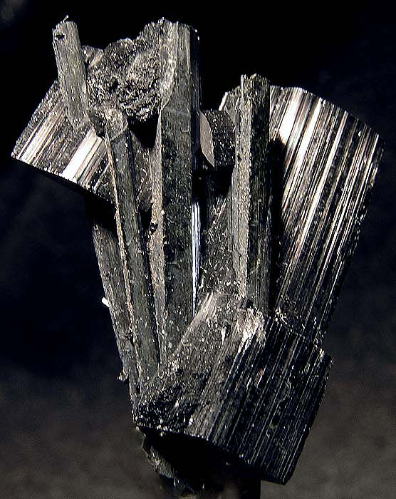 Arfvedsonite Locality: Poudrette quarry (Demix quarry; Uni-Mix quarry; Desourdy quarry), Mont Saint-Hilaire, Rouville RCM, Montérégie, Québec, Canada (Locality at ) A gorgeous mineral specimen with so much going for it - sharp crystals for the species, excellent sculptural form, great lustre...! Terminated all around, too, and a floater! These are from a new find in December of 2003. 3.0 x 2.5 x 0.8 cm